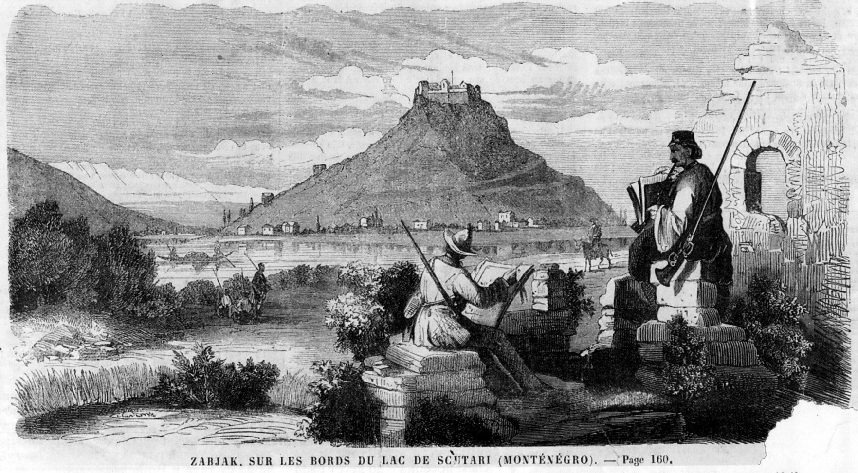 Zabljak, 1860.